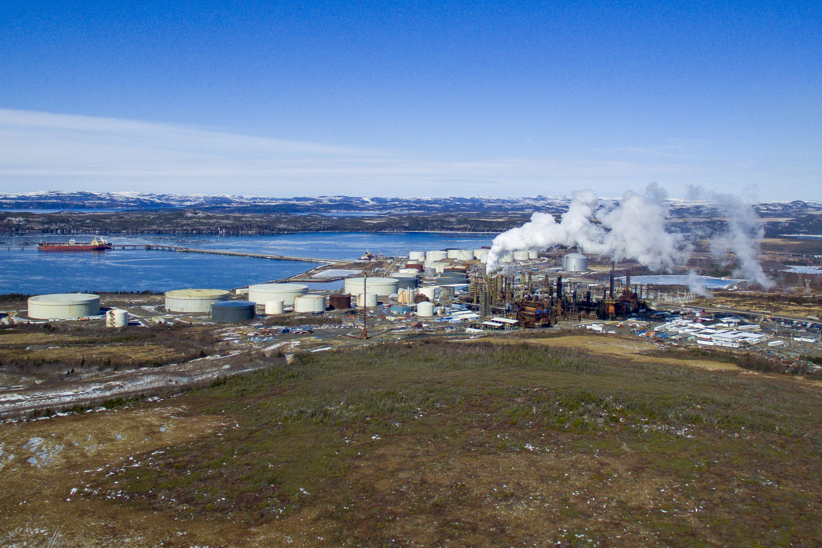 The Come by Chance Refinery, operated by North Atlantic Refining Limited. Located in Placentia Bay, Newfoundland and Labrador.